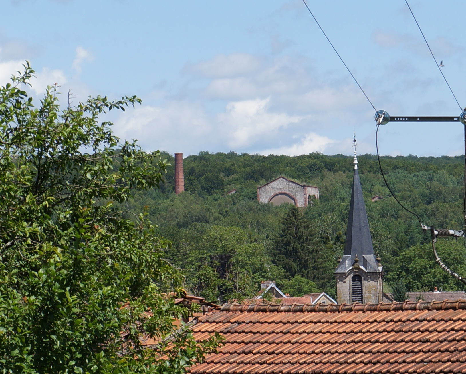 View from the village of Magny-Danigon ruins of the coal mine Arthur de Buyer in eastern France.